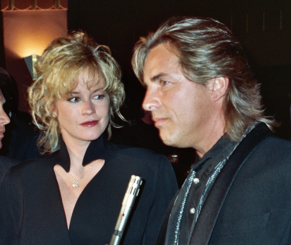 Melanie Griffith and Don Johnson at the APLA benefit, 9/7/90 (revised)